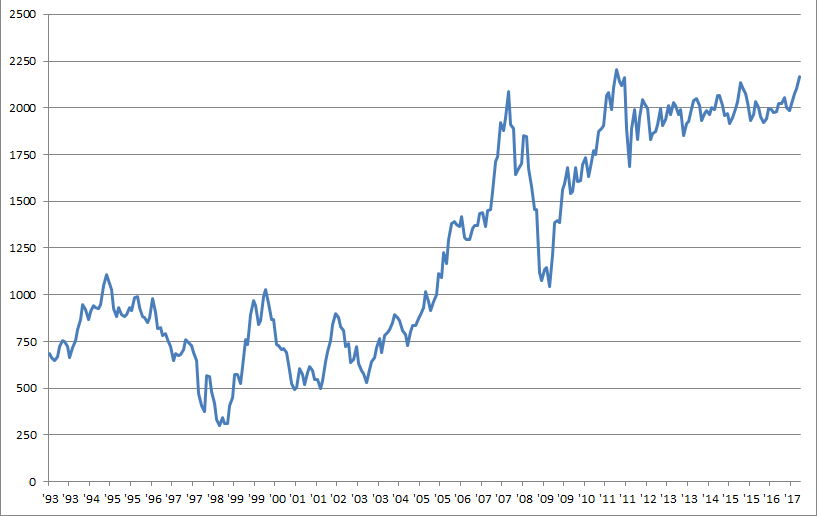 The Kospi Index (1993 January - 2017 April)